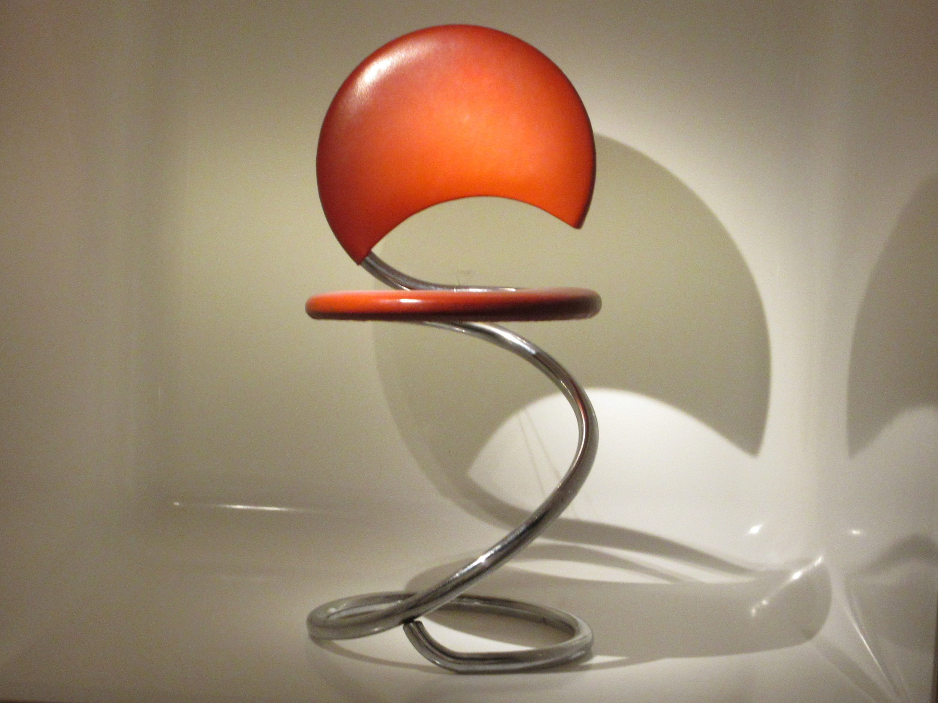 The Snake chair designed by Poul Henningsen in 1932.